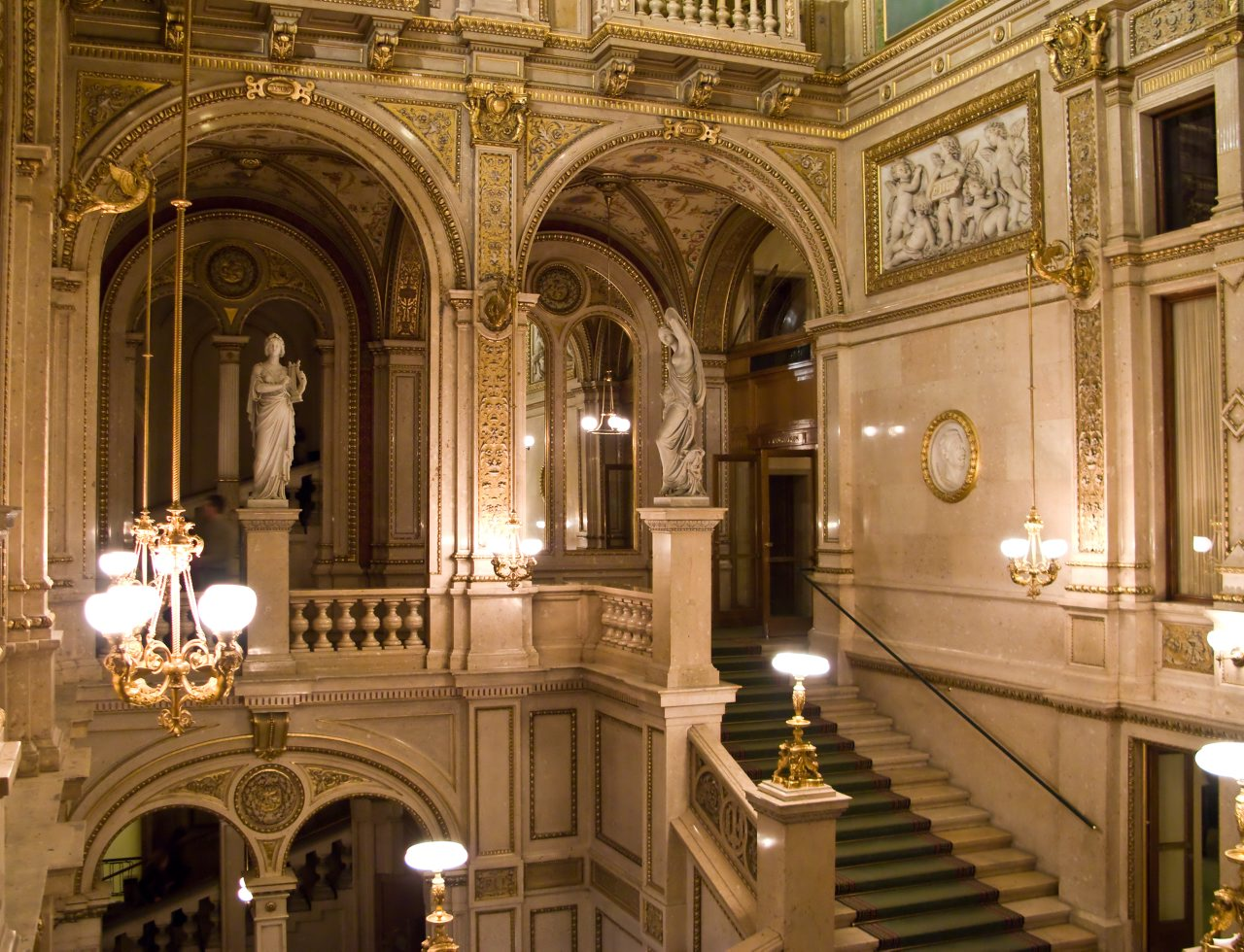 Vienna State Opera. A superb marble staircase sweeps up from the main entrance to the first floor.